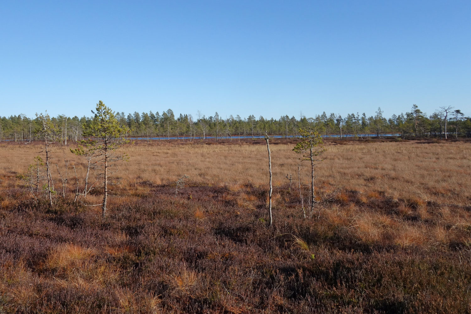 Lake Mussjön in Umeå Municipality, northern Sweden, viewed from the west.